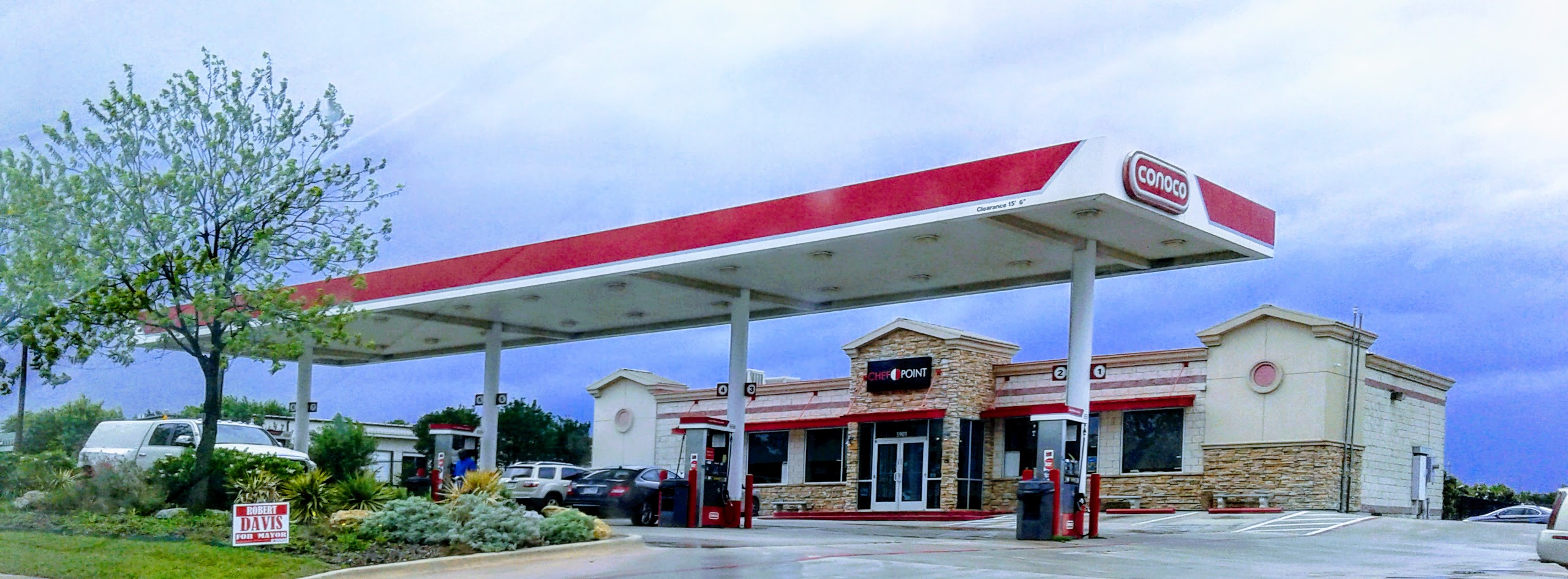 A former Conoco fuel station in Watuaga, Texas. Pictured on April 17, 2017.